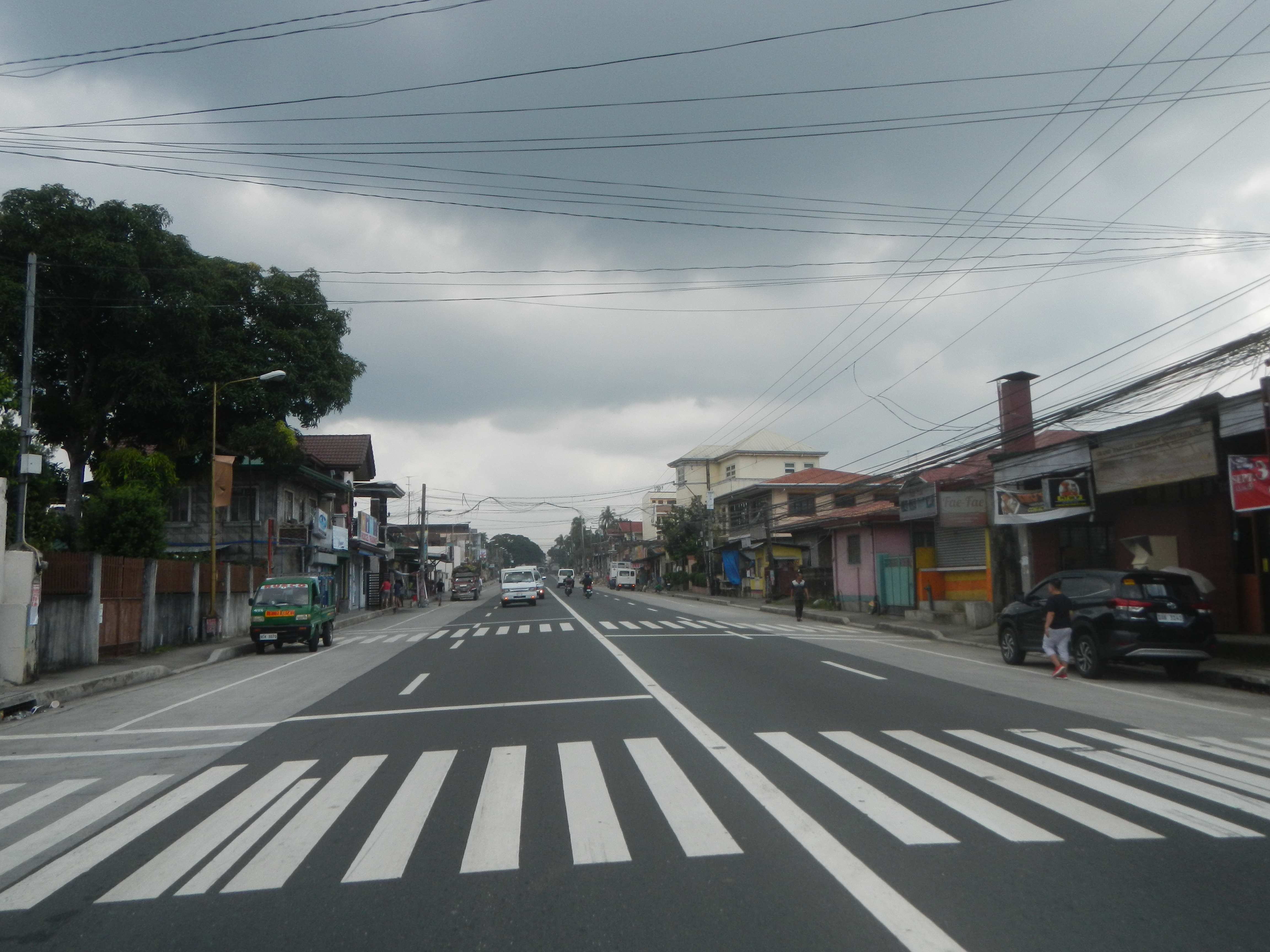 Lipa, Batangas Barangay Bugtong na Pulo, Lipa, Batangas 14.0054, 121.1717 Lipa, Batangas bounded by Barangays San Fernando, Malvar, Batangas 14.0287, 121.1643 Santiago, Malvar, Batangas 14.0169, 121.1653 Malvar, Batangas Pan-Philippine Highway Philippine highway network (Note: Judge Florentino Floro, the owner, to repeat, Donor Florentino Floro of all these photos hereby donate gratuitously, freely and unconditionally Judge Floro all these photos to and for Wikimedia Commons, exclusively, for public use of the public domain, and again without any condition whatsoever).